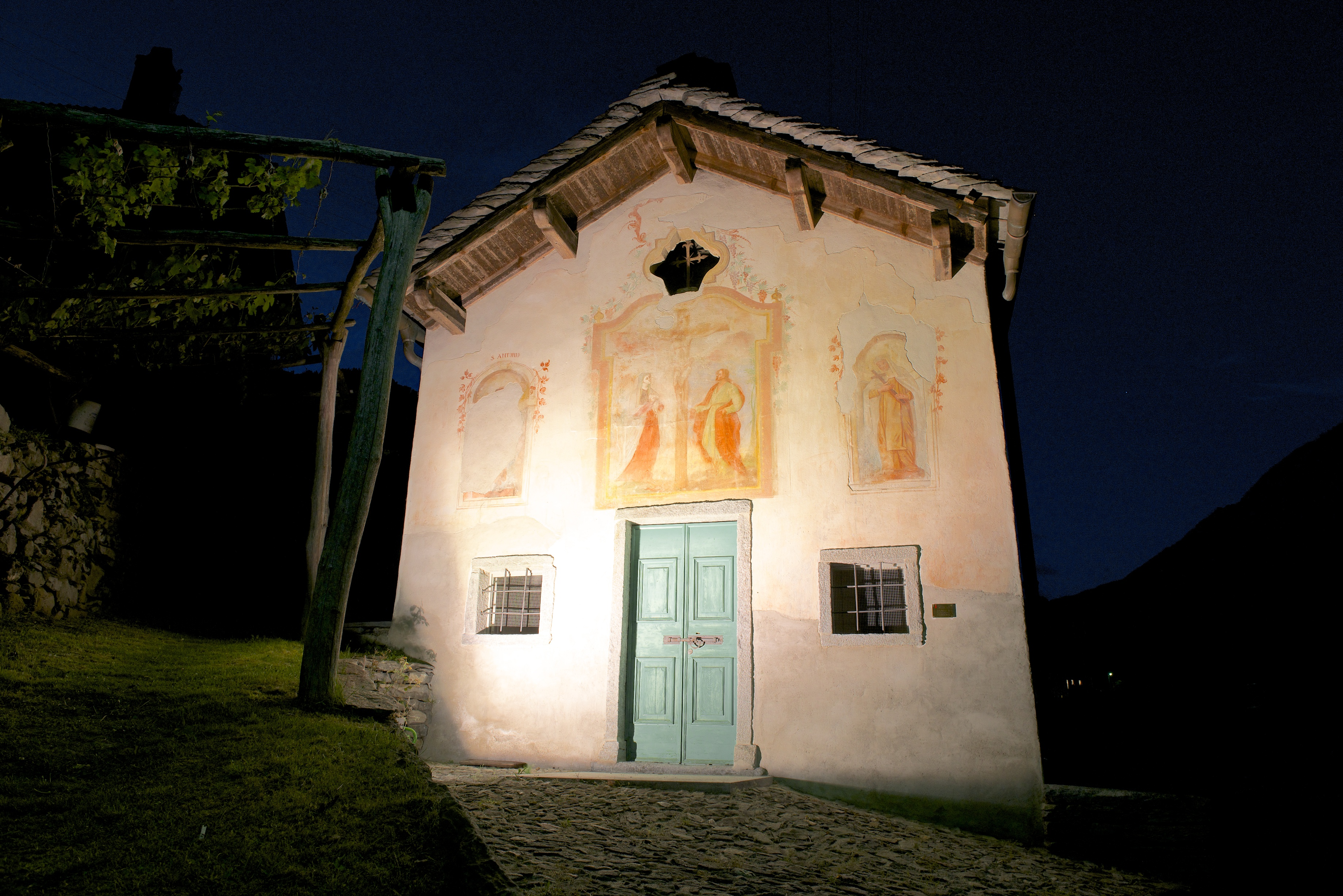 Verdabbio Chapel